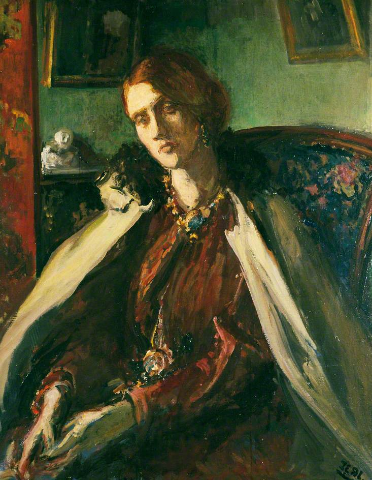 Julia Prinsep Stephen, née Jackson (1846–1895), Formerly Mrs Duckworth (mother of Virginia Woolf and Vanessa Bell)